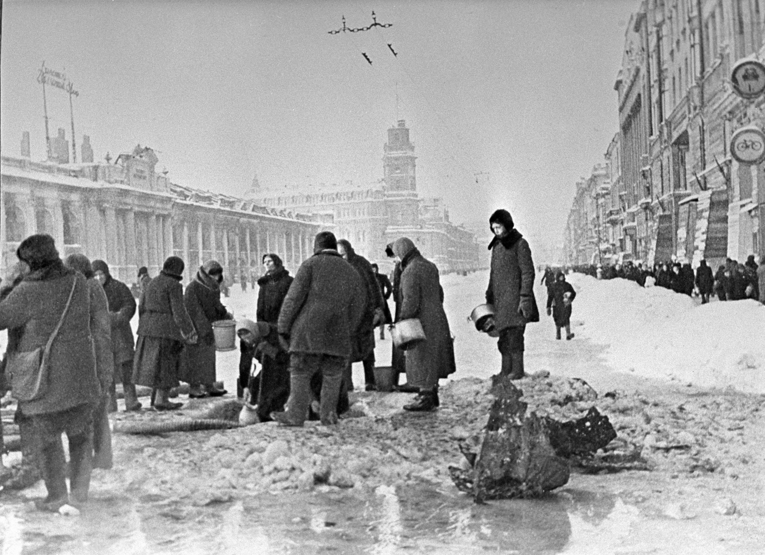 “Residents of Leningrad queueing up for water”. People in besieged Leningrad taking water from shell-holes. Location: Nevsky Prospect, between Gostiny Dvor (the long building on the left) and Ostrovsky Square.